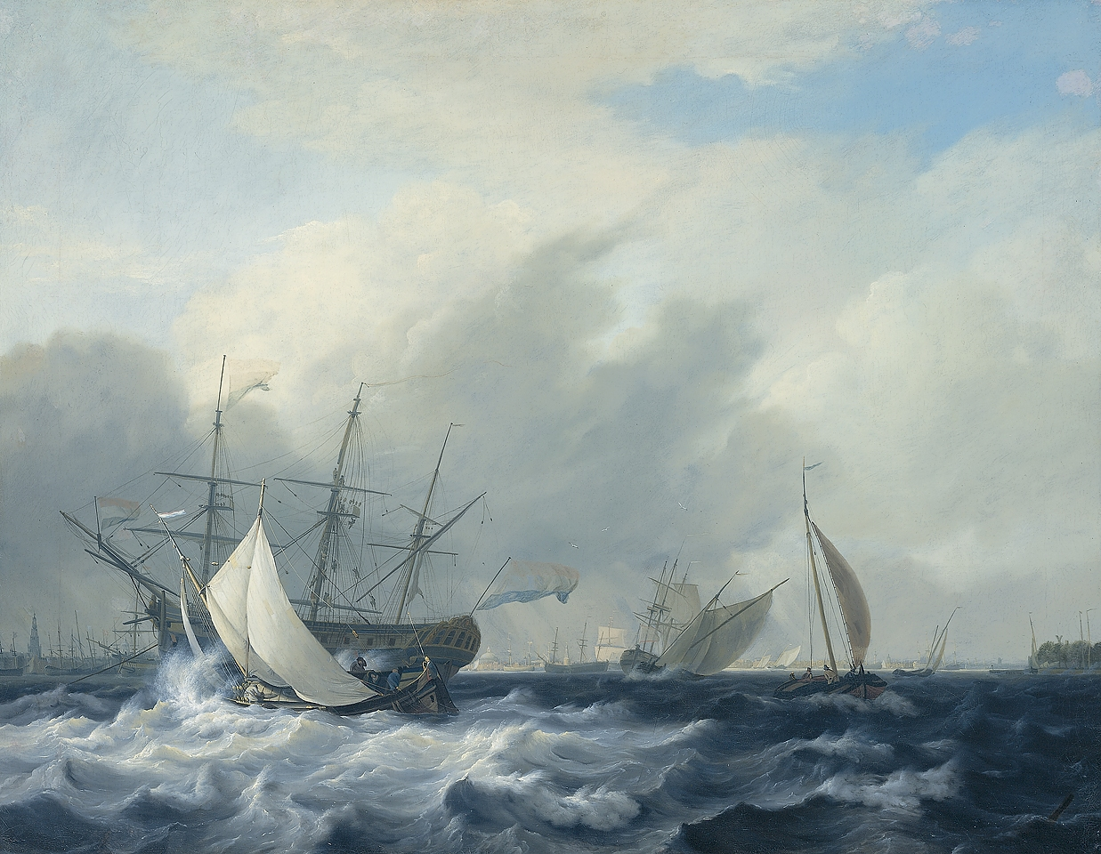 Warship 'Amsterdam' on the IJ before Amsterdam